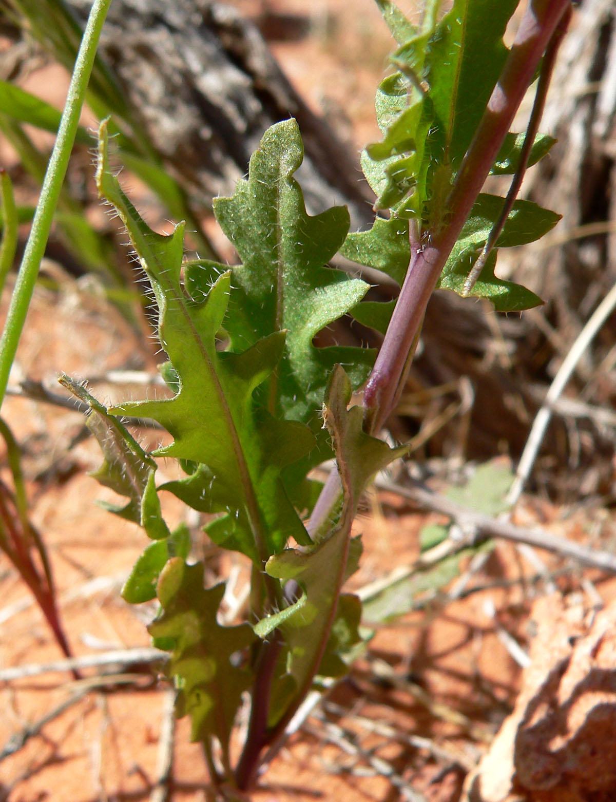 Guillenia lasiophylla near the Redstone picnic area, Northshore Road, Lake Mead National Recreation Area, southern Nevada (NNPS field trip)